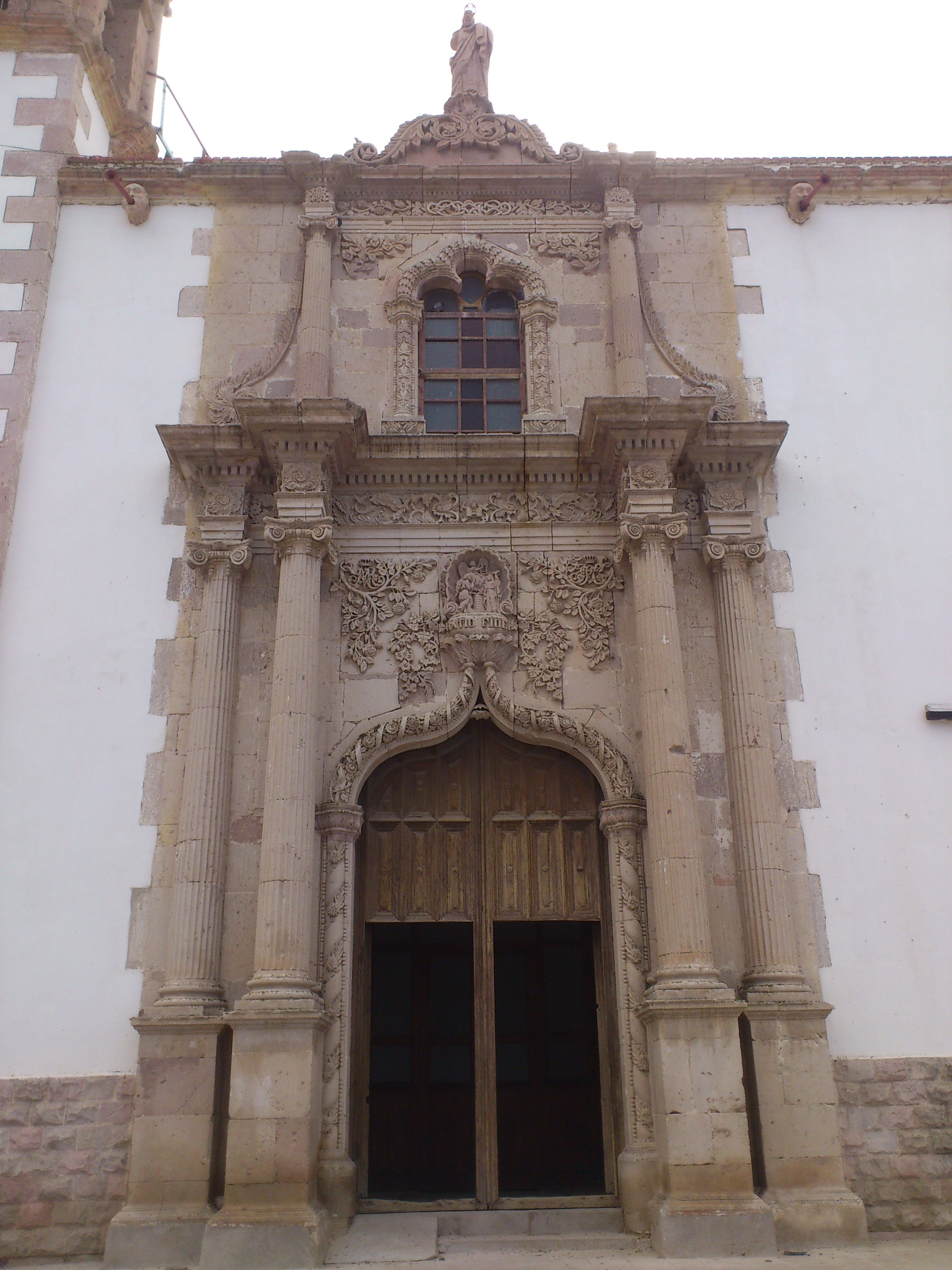 Fachada de la parroquia de Santiago en Mapimí, Durango